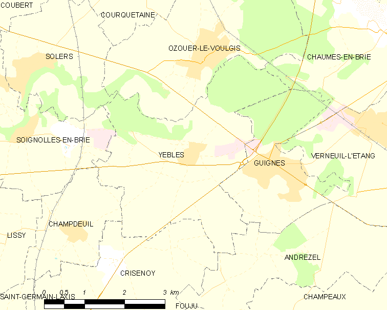 Map of French municipality Yèbles